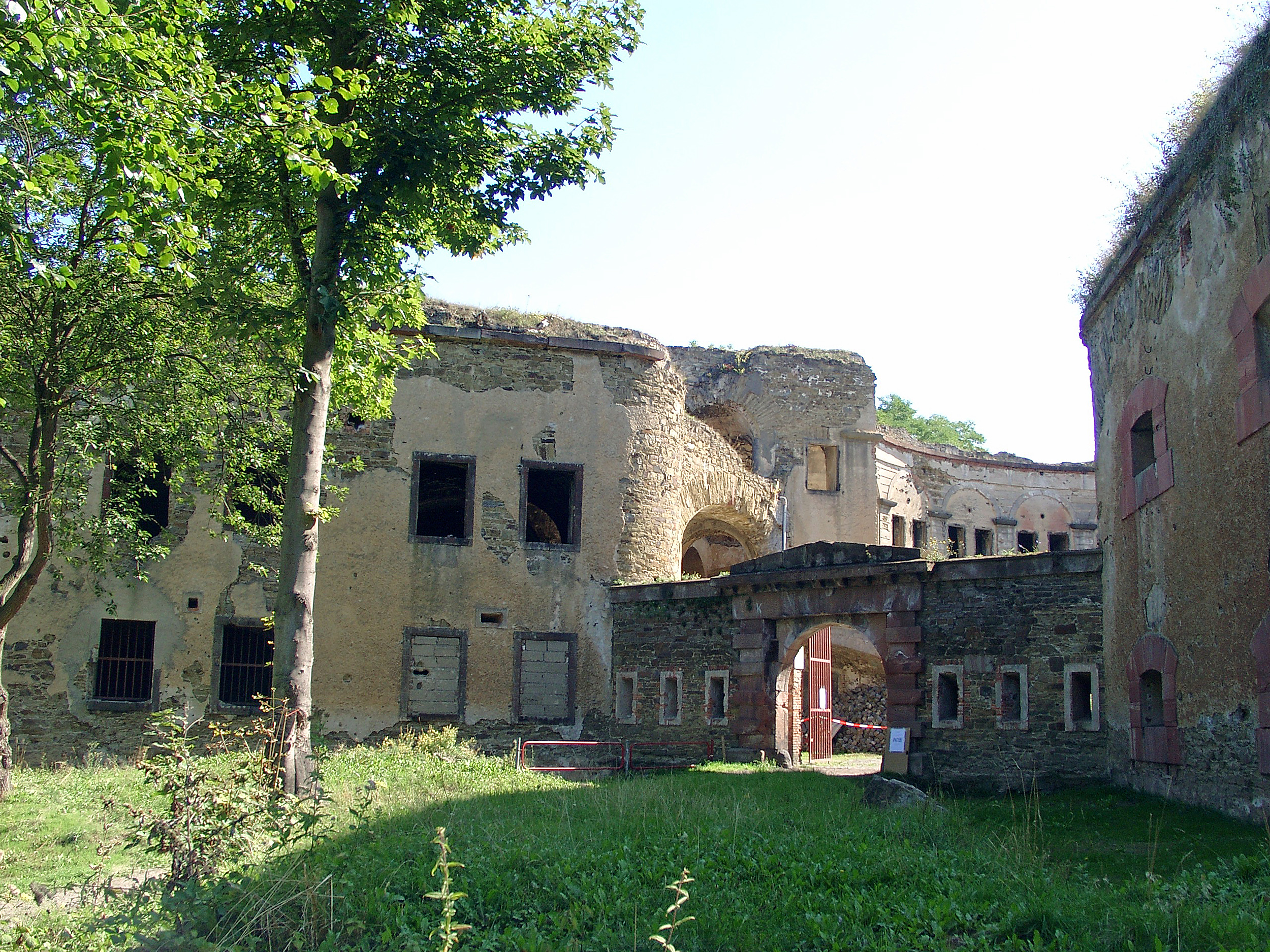 Fort Asterstein in Koblenz